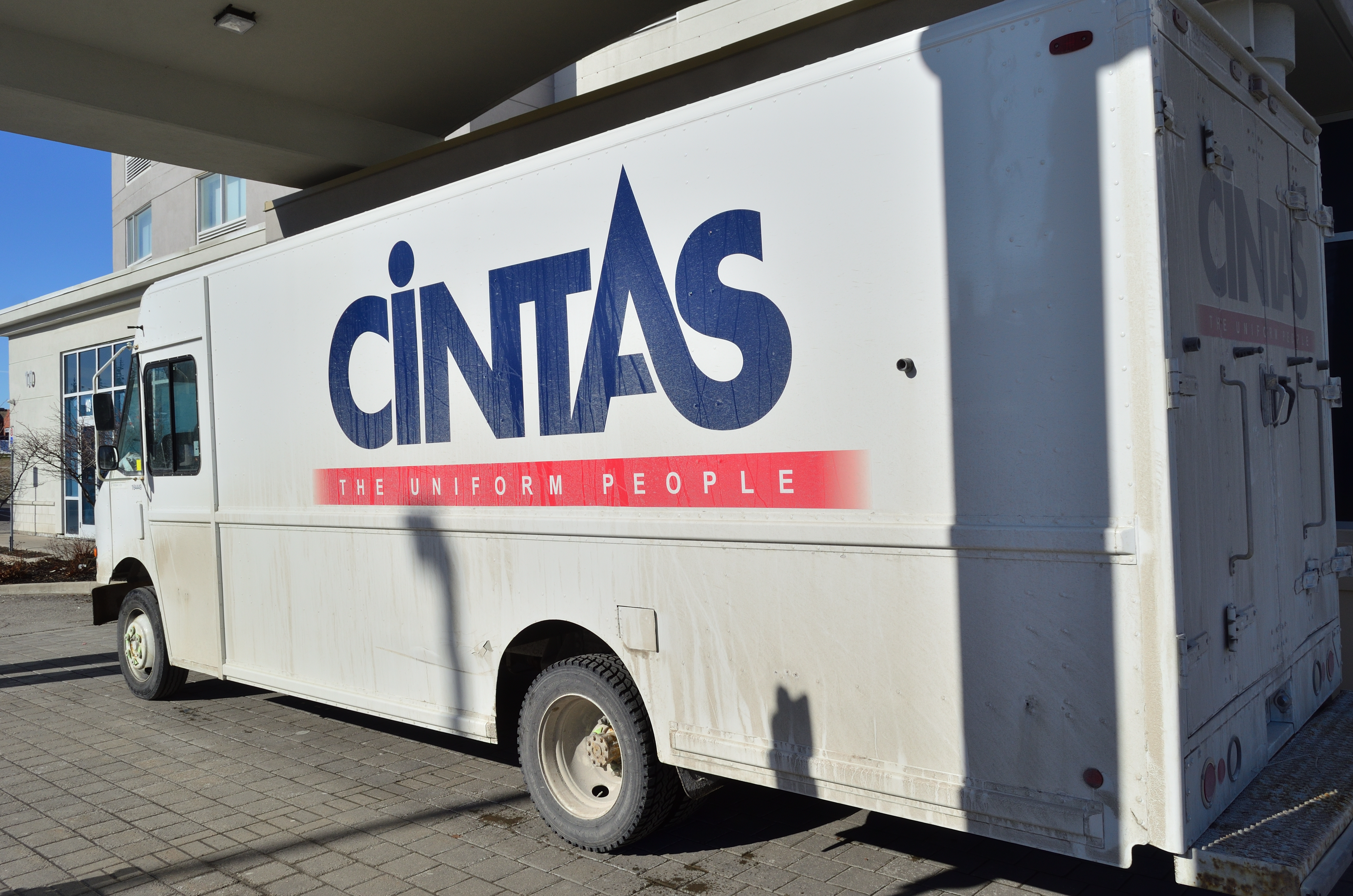 Cintas vehicle